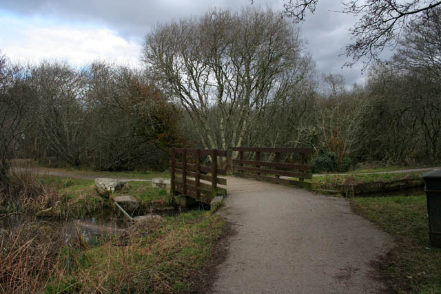 The Clay Trail near St Blazey The Clay Trails around the St Austell area, first opened in 2005, link old industrual areas around St Austell, the Eden Project and the Wheal Martyn China Clay Mining and Heritage Centre. This photograph shows part of the St Blazey trail, from Eden to Par Beach, that passes through Par and Tywardreath. The surface of the trails are mainly gravel, easy for walking and cycling and most are suitable for horse riding. Trails and pathways can also be used by electric 'mobility' scooters making this interesting area of Cornwall available to a wider group of outdoor enthusiasts.